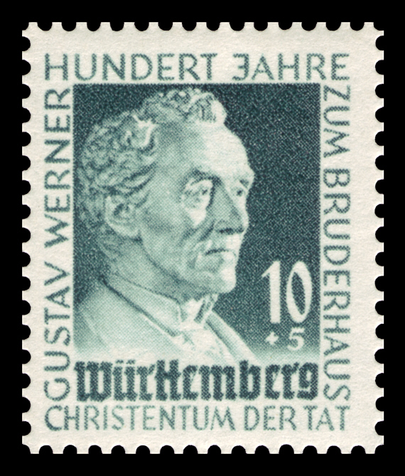 French occupied zone, Württemberg-Hohenzollern, stamp with additional fee, 100 years of the Gustav-Werner-Stiftung Ausgabepreis: 10+5 Pfennig First Day of Issue / Erstausgabetag: 3. September 1949 Michel-Katalog-Nr: 47 (Französische Besetzungszone, Württemberg-Hohenzollern)